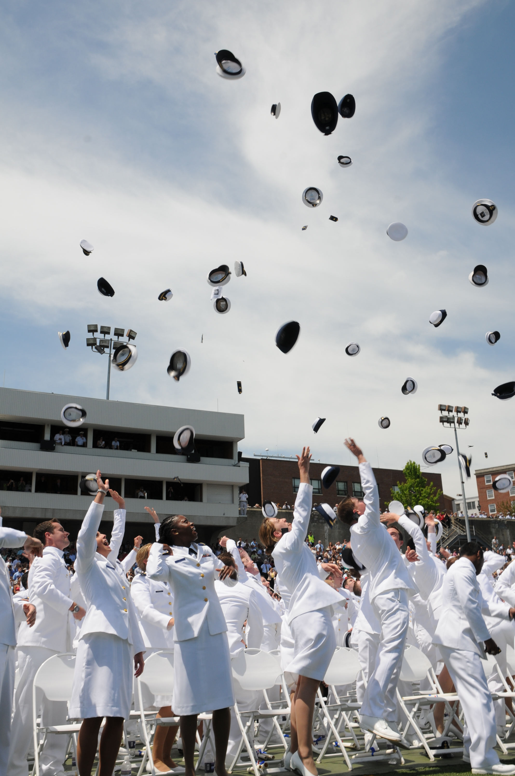 Coast Guard Academy Class of 2009 graduating